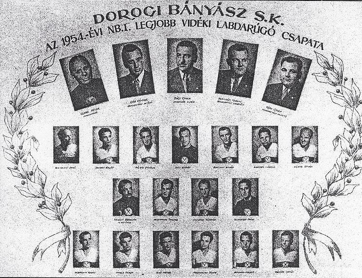 The best provincial team in Hungary in the early 50's. This title was a great honor.